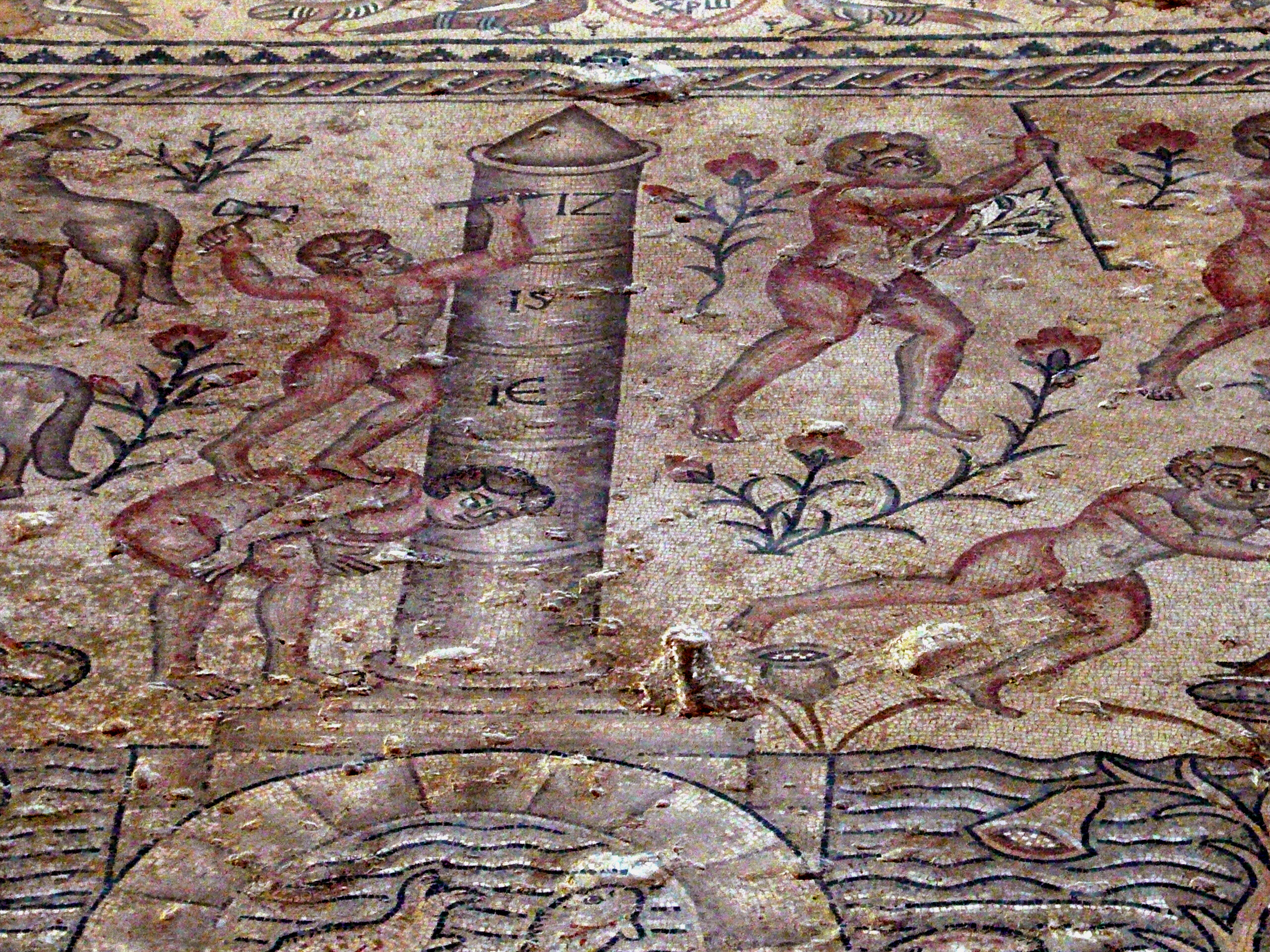 Ancient Mozaik showing Nilometer in Tzippori, israel פסיפס המראה נילומטר (מכשיר למדידת גובה הנילוס) בעתיקות ציפורי